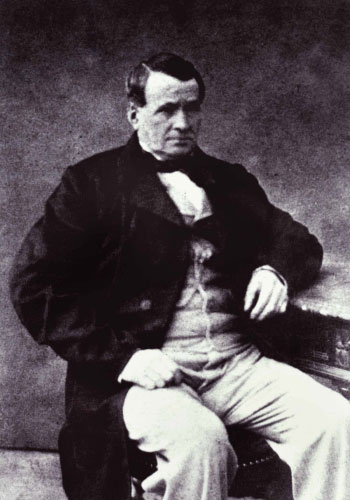 Thierry Hermès (1801-1878), founder of Hermès. He was born in Krefeld, Prussia and moved to Paris at age 13.